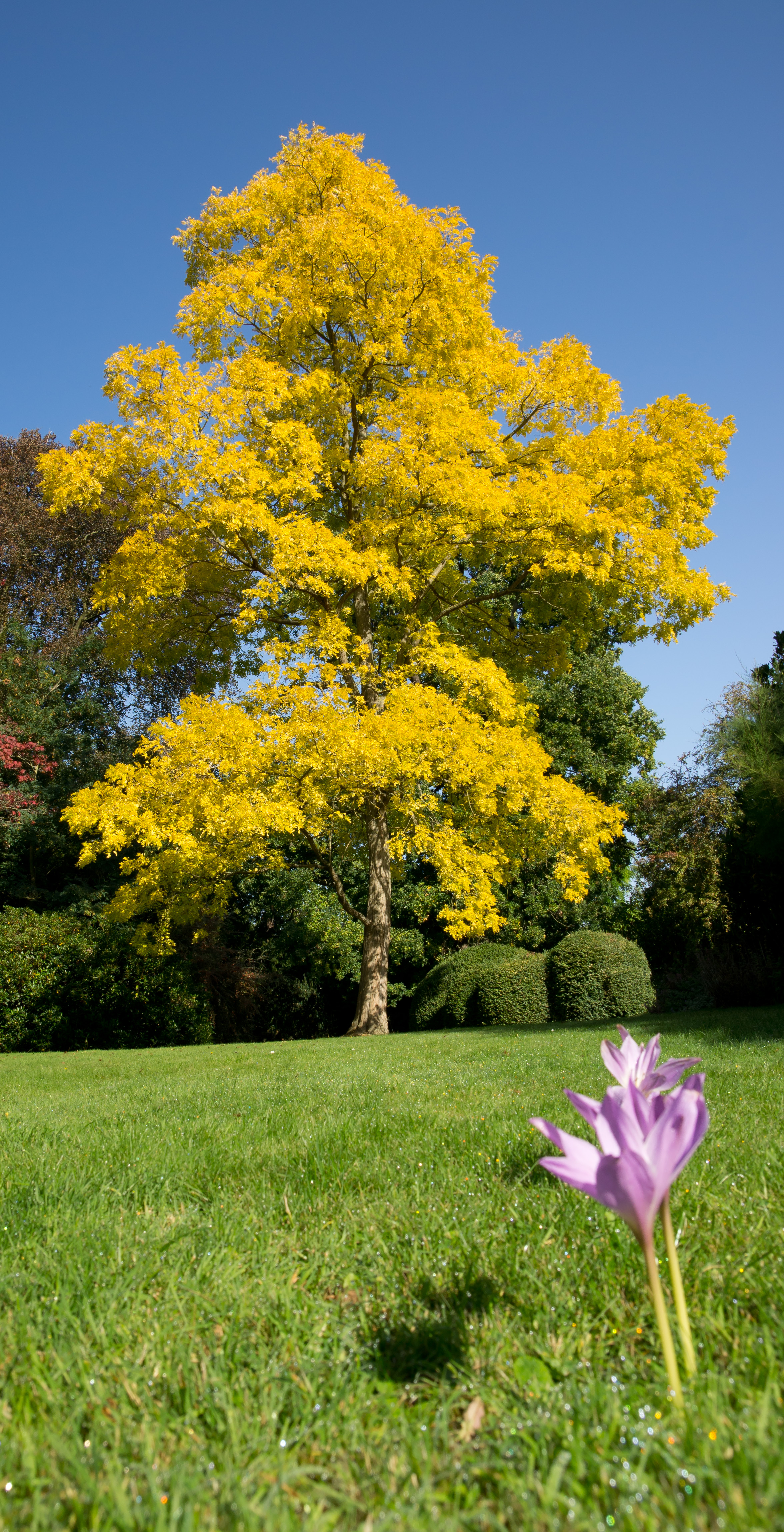 A "Golden False Acacia" in the Swiss Garden at Old Warden.